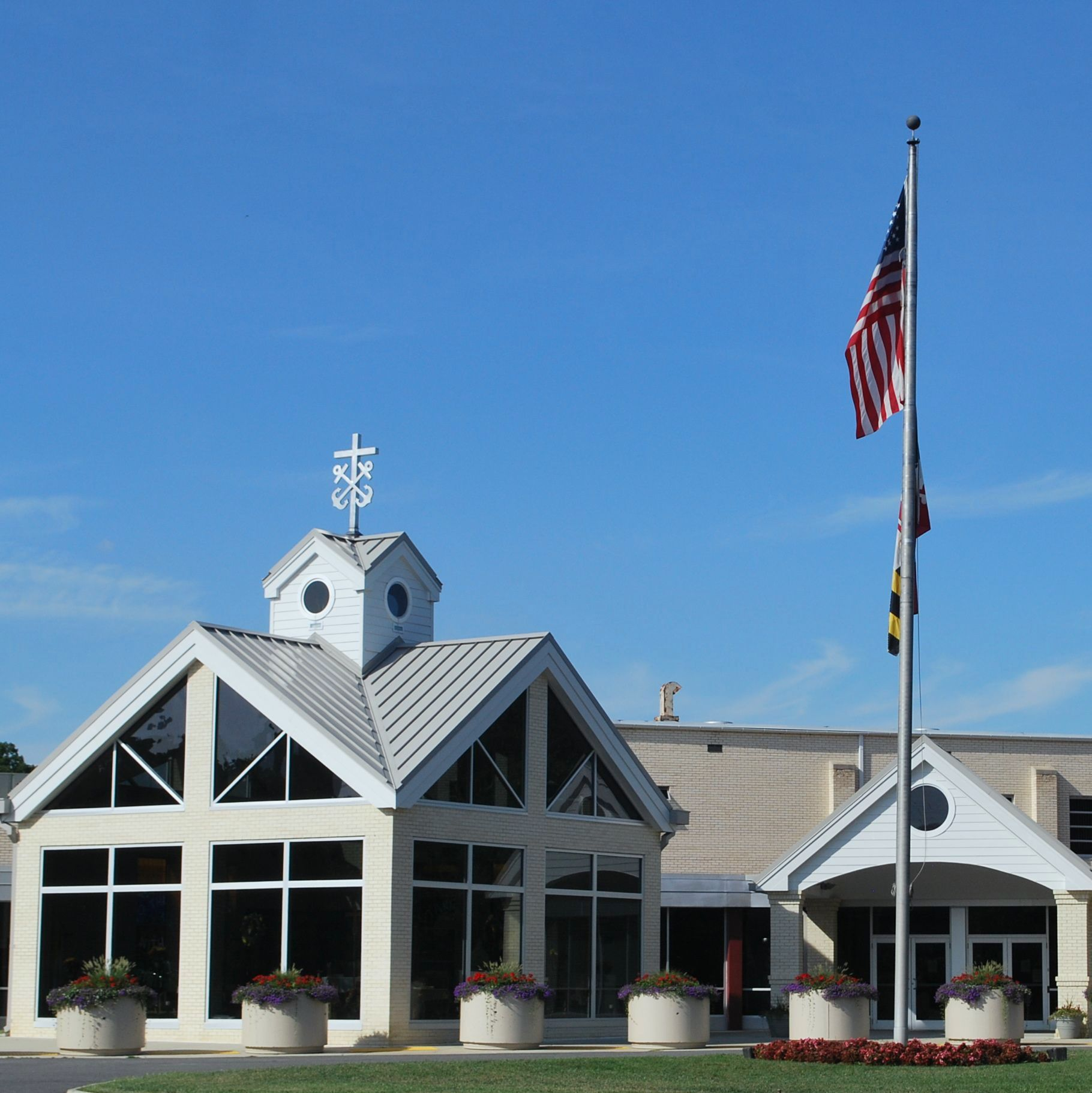 jpg of the front of the school showing the main entrance and the Moreau Chapel; to be used on the wiki home page